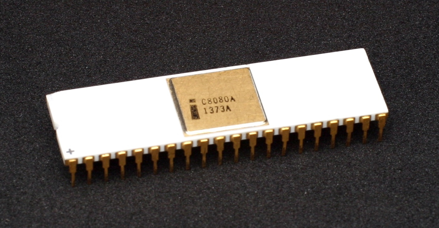 CPU Intel i8080